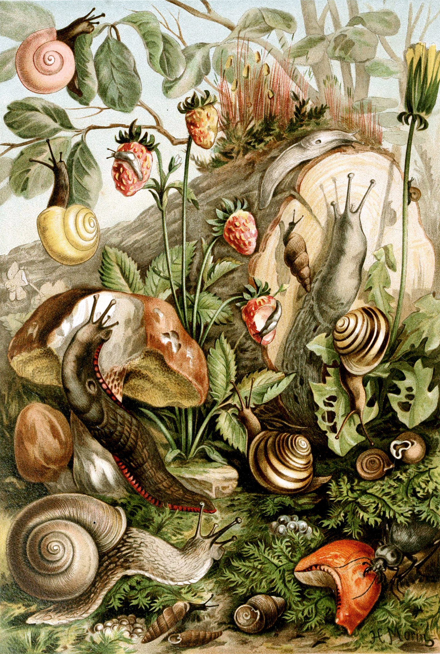 Please note that this image is not suitable to illustrate "Pulmonata" or any other taxon, because it is intended to illustrate an ecological group - land molluscs, which is clearly indicated in the title of the illustration. It depicts various examples of European land snails and slugs that are mostly pulmonates with one exception: Pomatias elegans in the center foreground with operculum. It also shows eggs, food plants and a predator. The legend is available here.